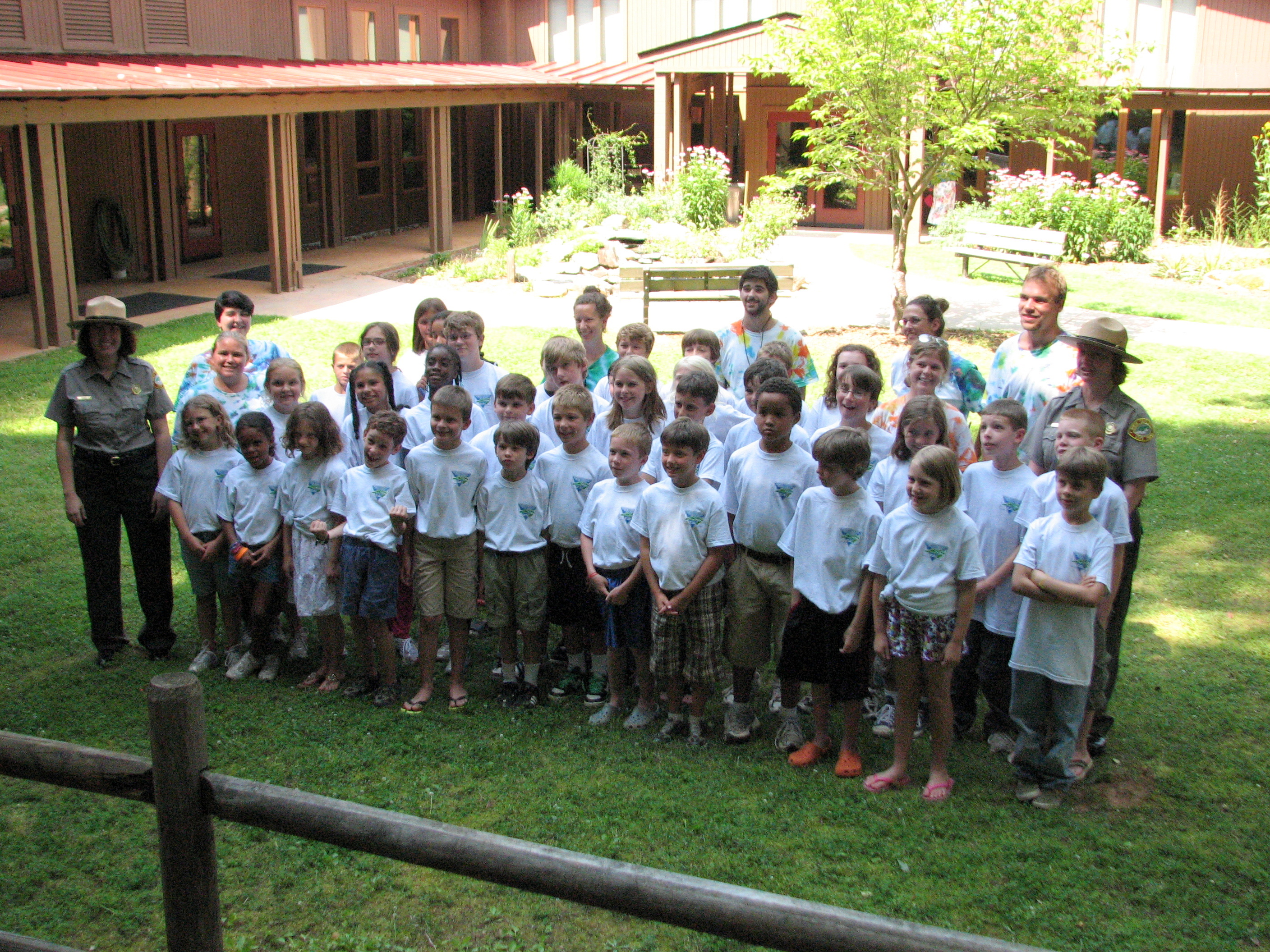 "Junior Ranger" environmental education program at Haw River State Park, North Carolina, US.